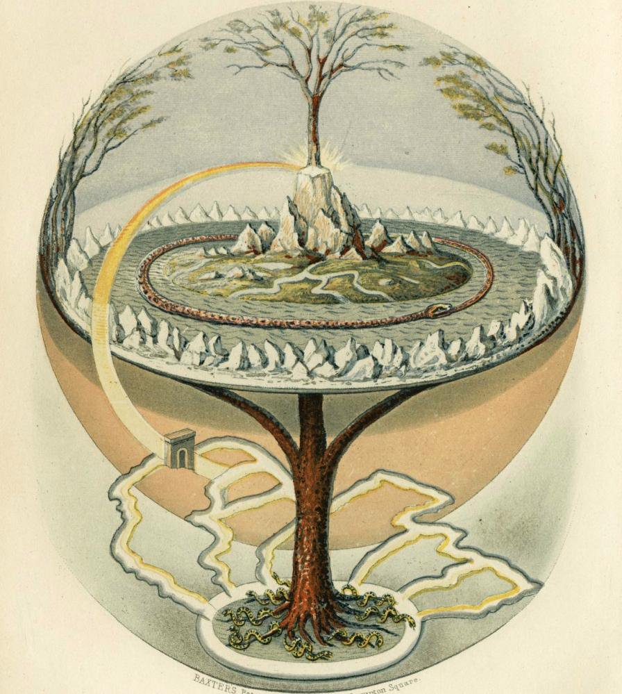 English translation of the Prose Edda from 1847, by Oluf Olufsen Bagge. Text below the image: "Baxter...ton Square". Full text (see other version or ): "Baxters Patent Oil Printing 11 Northampton squareYggdrasil, The Mundane Treesee p. 492",from a plate included in the English translation of the Prose Edda by Oluf Olufsen Bagge (1847) Description below from Flickr consulted January 3, 2020: Oluf Olufsen Bagge (1780-1836), Yggdrasil, Prose Edda, 1847 Danish engraver b Copenhagen; d Copenhagen? Yggdrasil is an immense ash tree that is central to Norse cosmology and considered very holy. The gods go to Yggdrasil daily to hold their courts. The branches of Yggdrasil extend far into the heavens, and the tree is supported by three roots that extend far away into other locations; one to the well Urðarbrunnr in the heavens, one to the spring Hvergelmir, and another to the well Mímisbrunnr. Creatures live within Yggdrasil, including the wyrm (dragon) Níðhöggr, an unnamed eagle, and the stags Dáinn, Dvalinn, Duneyrr and Duraþrór.